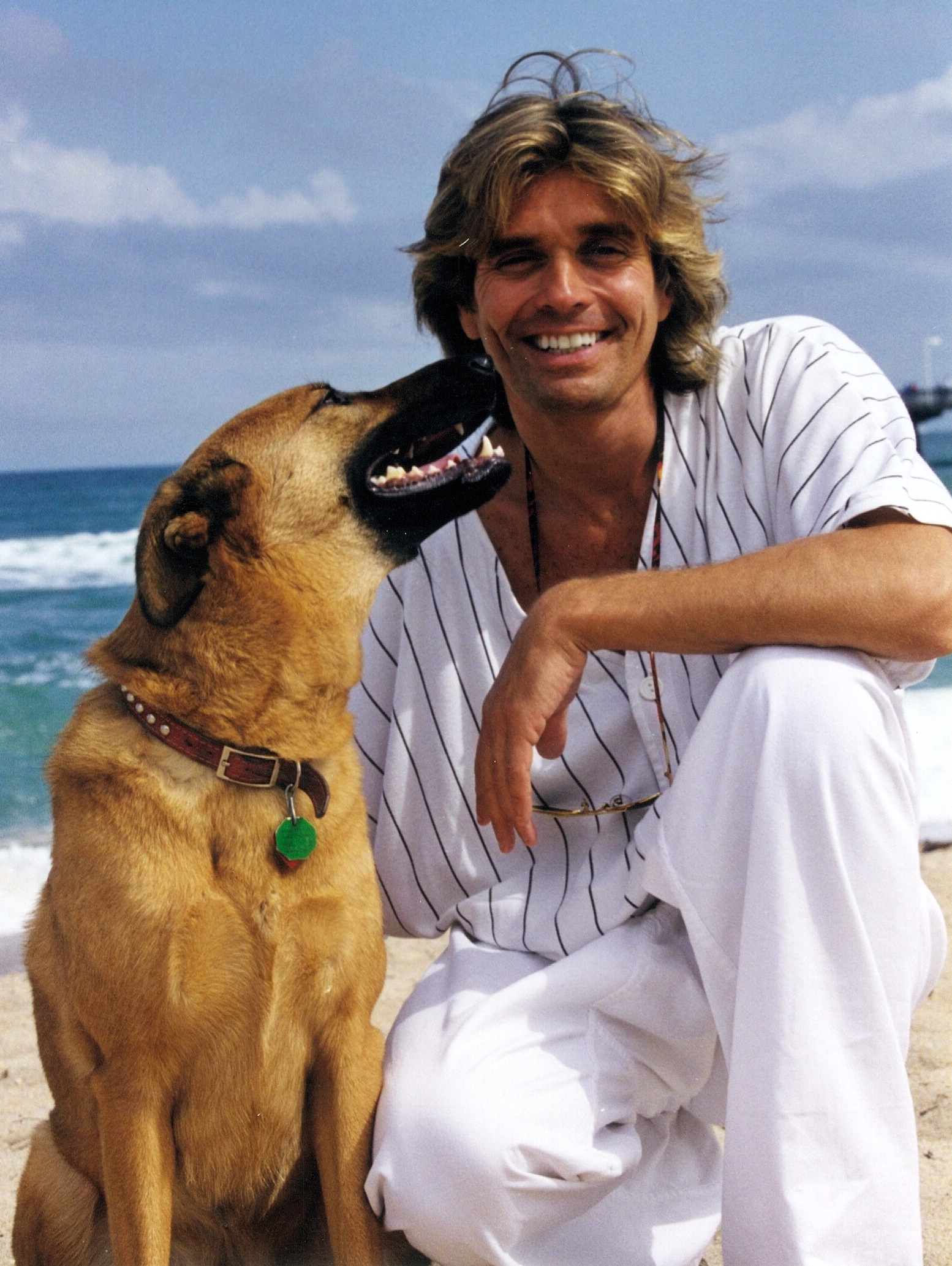 Description: Alex Pacheco, American animal rights advocate and co-founder of PETA, and Bear